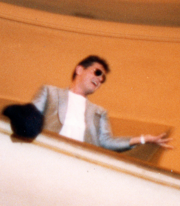 Falco, 1986 in Essen film premiere of Geld oder Leber